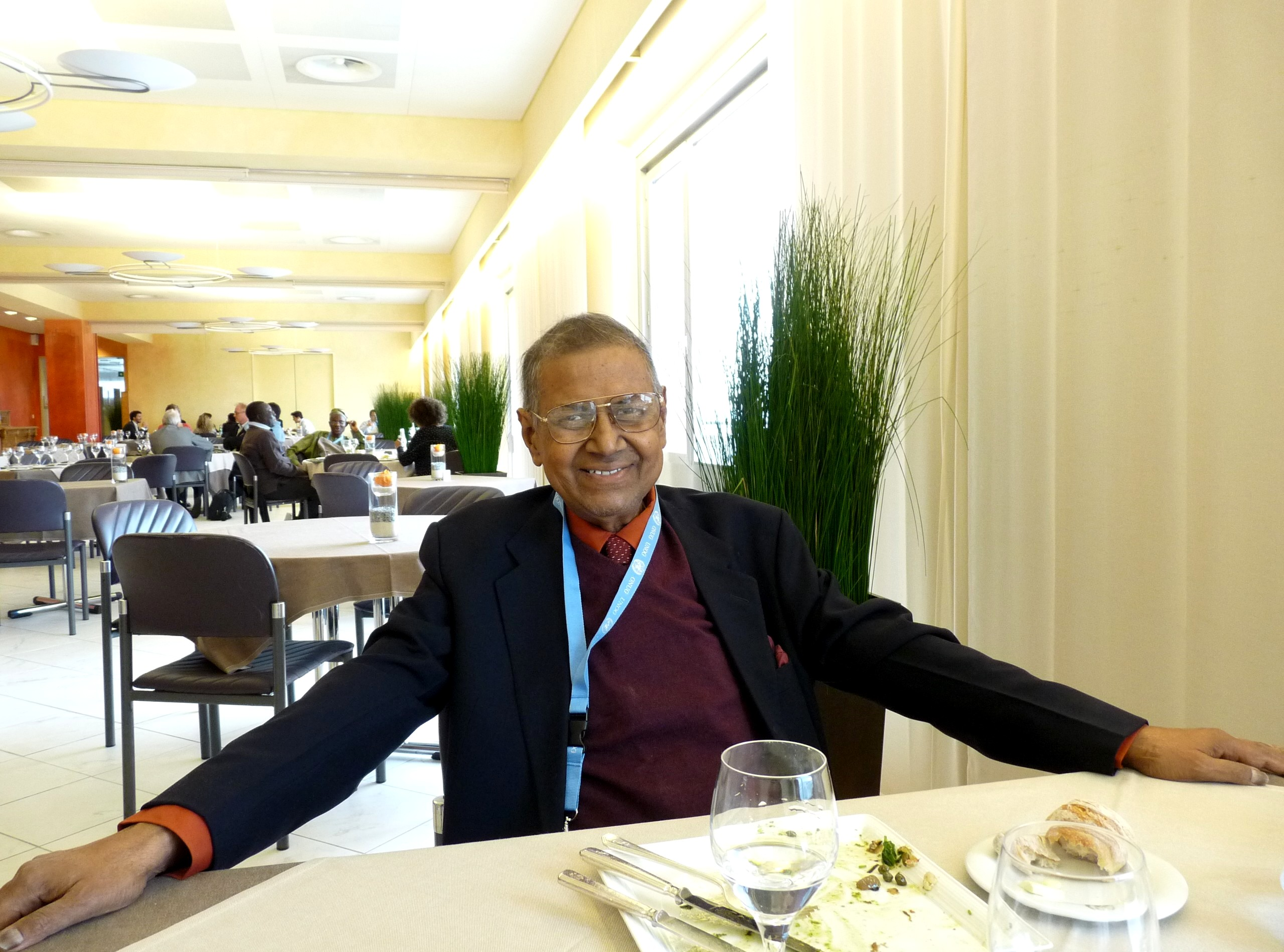 Photo of Arjun Sengupta in UN Delegates Lounge